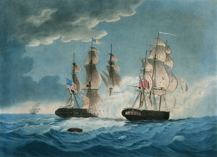 A Thomas Butterworth painting depicting the HMS Endymion and USS President at around 7:00 pm on the night of January 15th, 1815 when the ships turn to the South and brailed up their spankers in order to exchange broadsides.